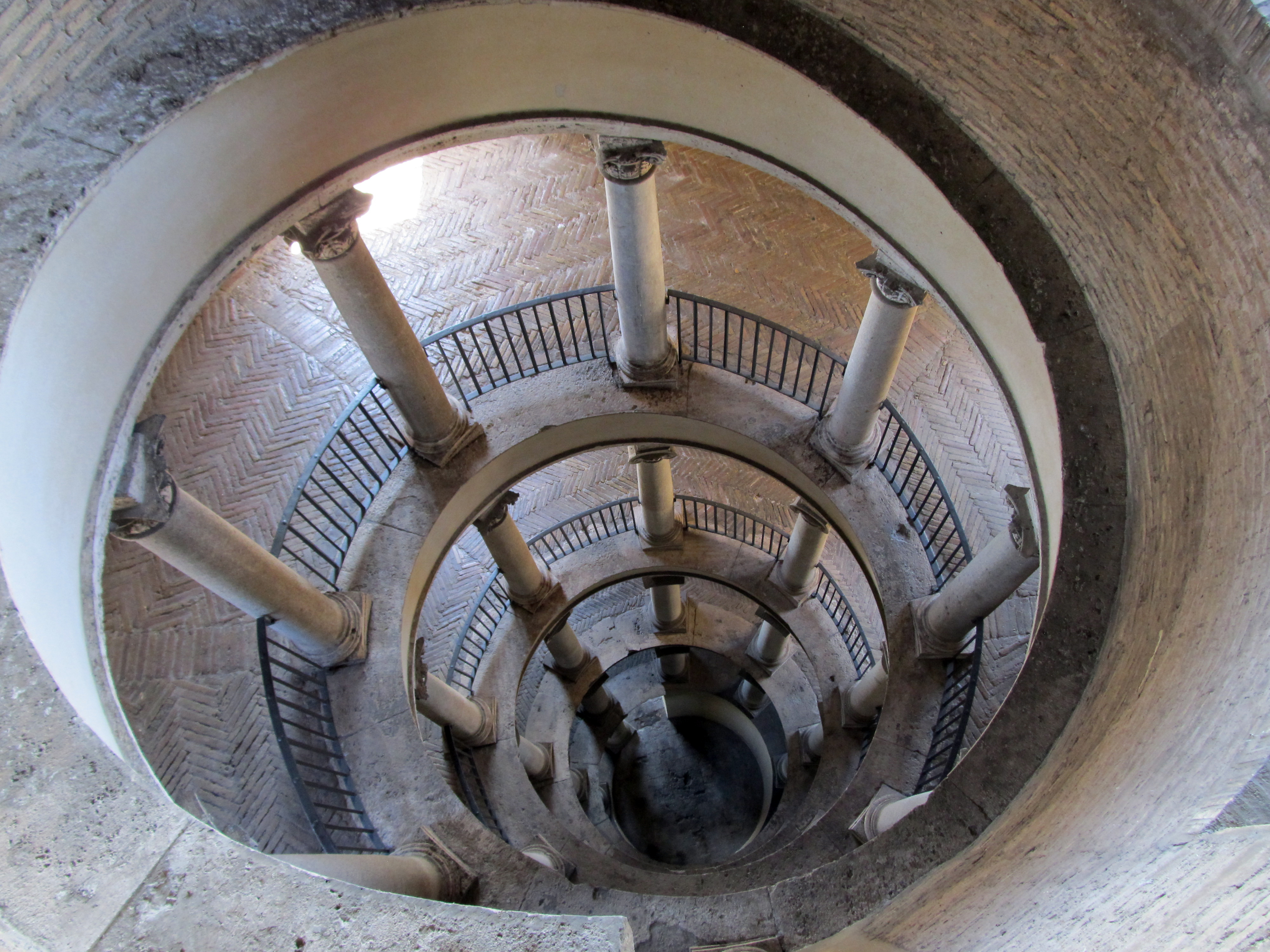 A better view of the Bramante Staircase from near the top.